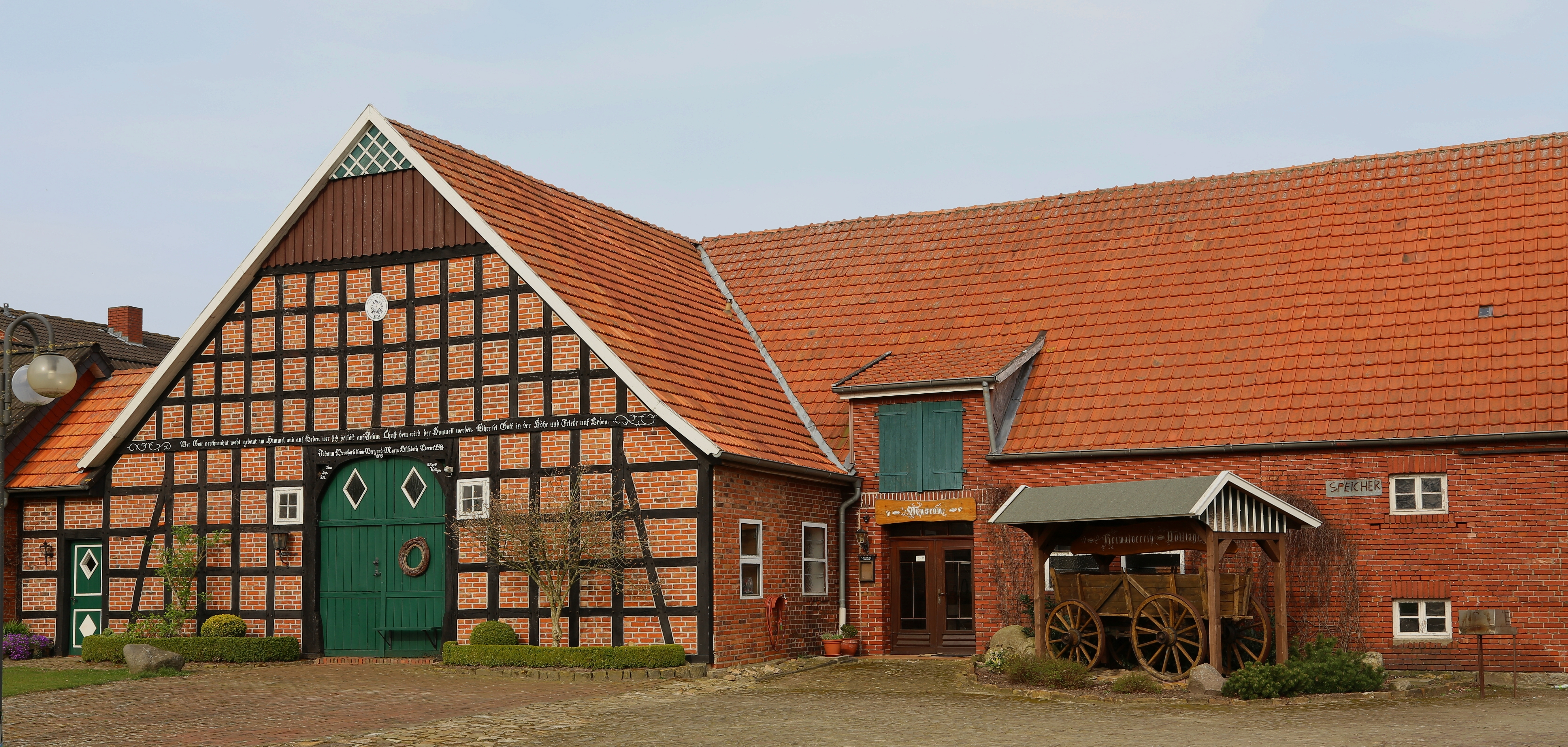 Heritage Museum Voltlage (Heimatmuseum Voltlage) in Voltlage-Höckel, Samtgemeinde Neuenkirchen, Landkreis Osnabrück, Lower Saxony, Germany.